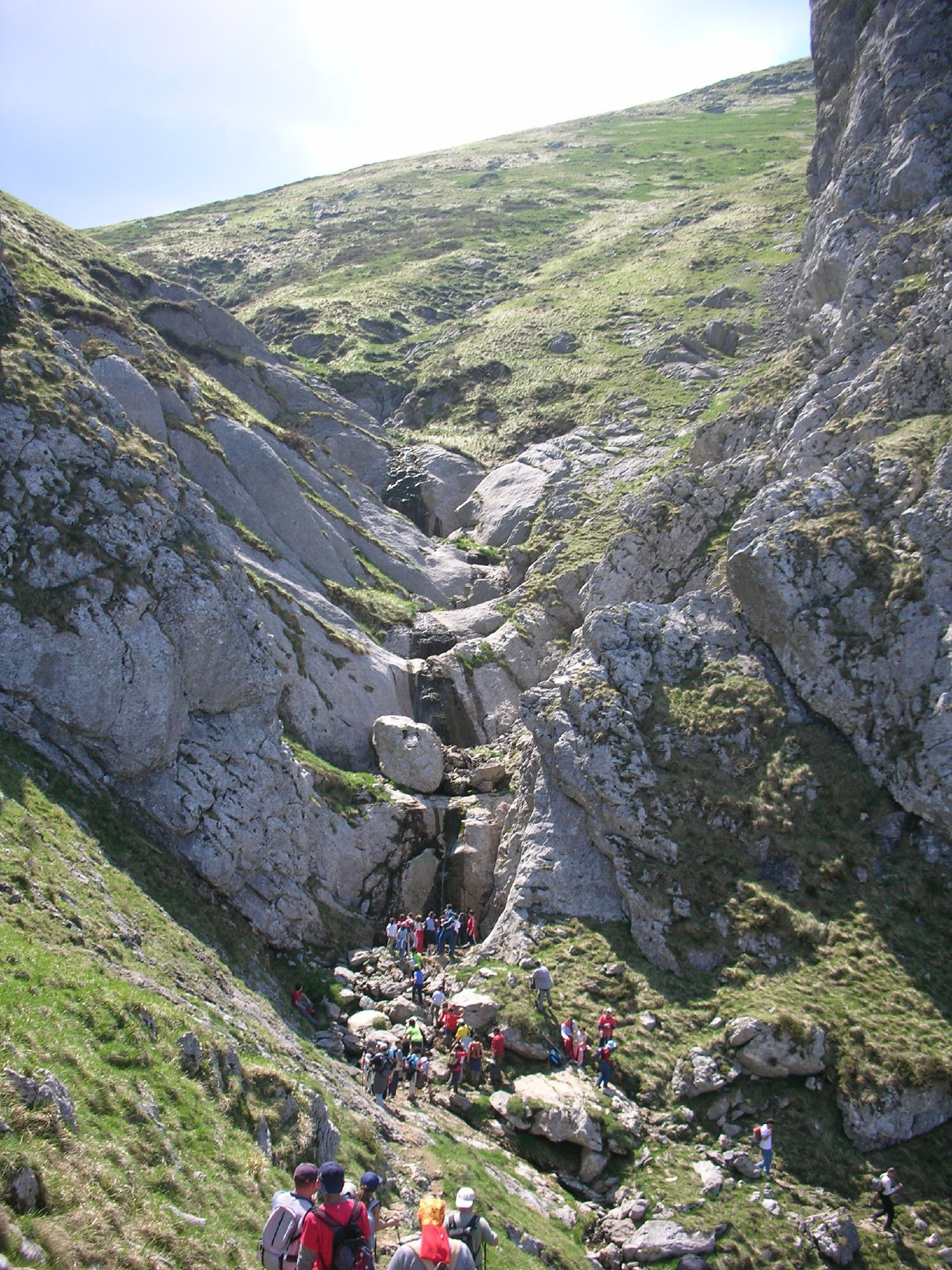 Muitze creek, Txindoki. Gipuzkoa, Basque Country.